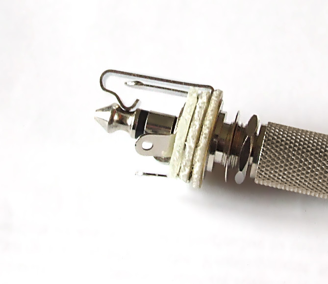 A Jack Plug breaks the connection for the normally-closed socket switch